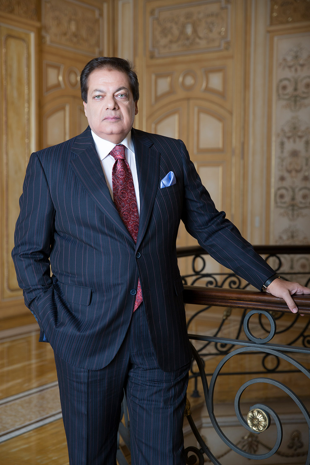 Mohamed M. Abou El Enein is a renowned Egyptian businessman, investor, public figure and an accomplished politician. He is the chairman and founder of Cleopatra Group and the founder of many major projects spread all over Egypt. Abou El Enein’s role as a Member of Parliament for over 15 years, and his vital contributions to the people of the district he represented and served, made him a well-known and much appreciated celebrity. He won numerous international awards and certificates of honor for his contribution to the various fields of business.